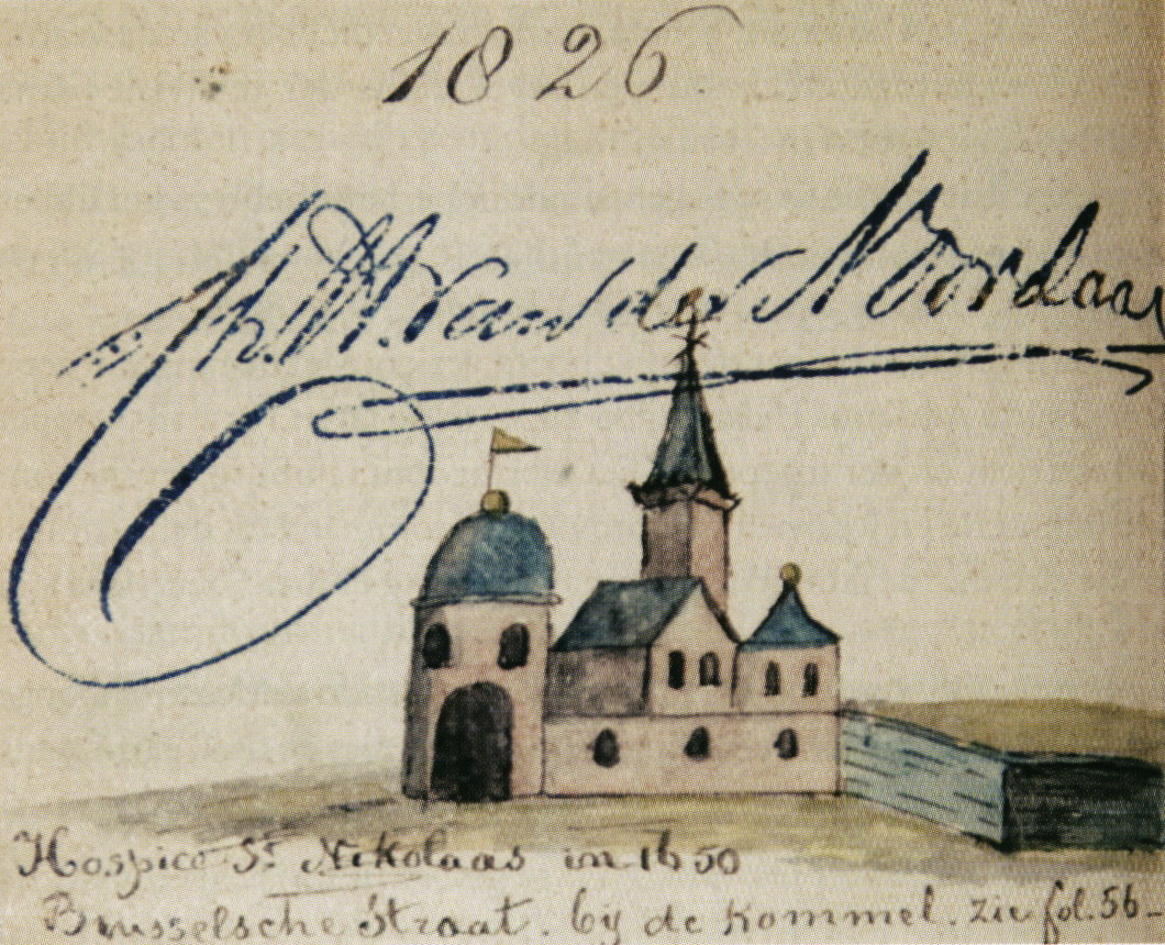 Maastricht, the Netherlands. Drawing of the former chapel of the hospital of Saint Nicolas south of Brusselsestraat. Reconstruction by Charles van der Noordaa (1826).